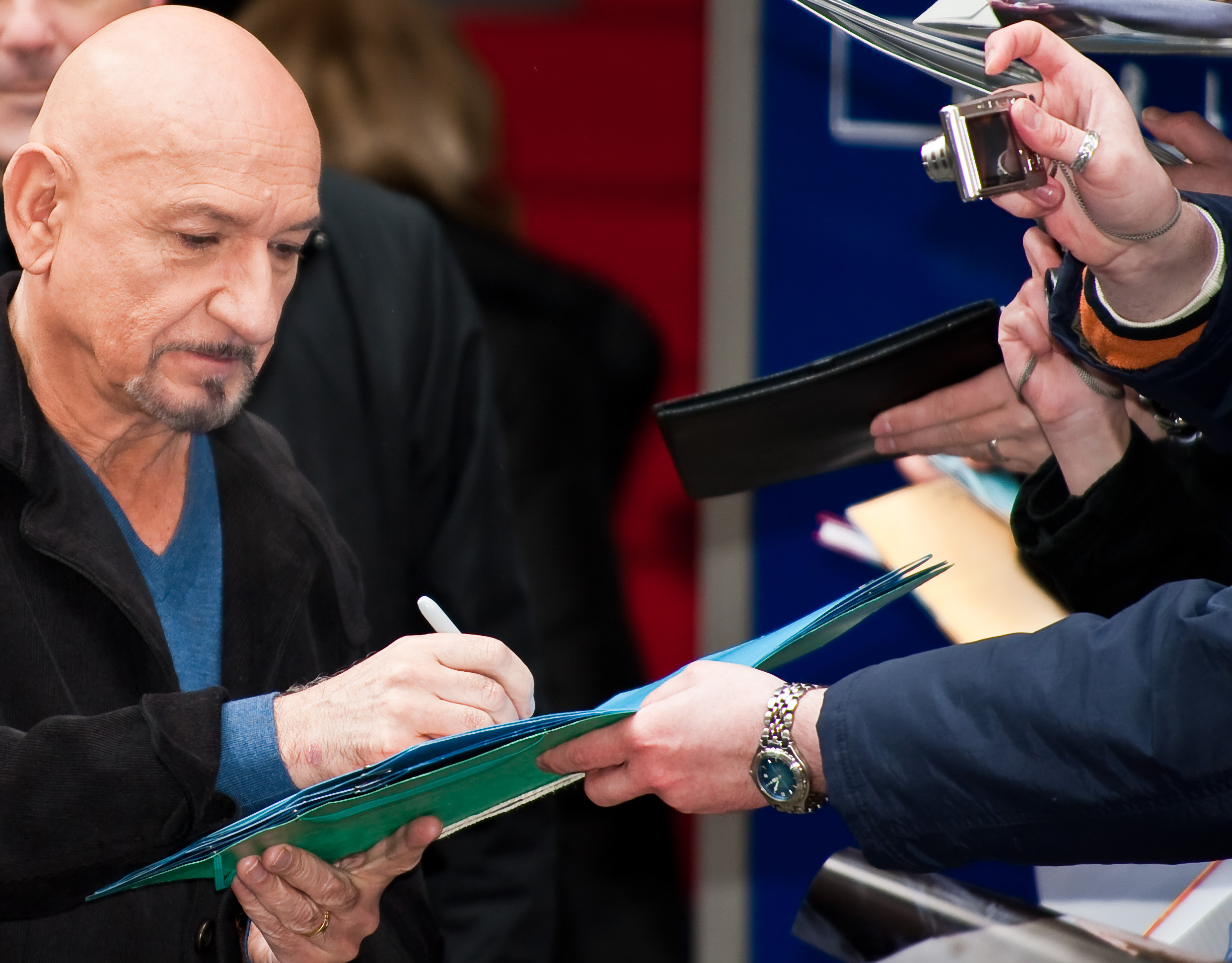 Bitish actor Sir Ben Kigsley leaving the press conference for the film "Shutter Island"